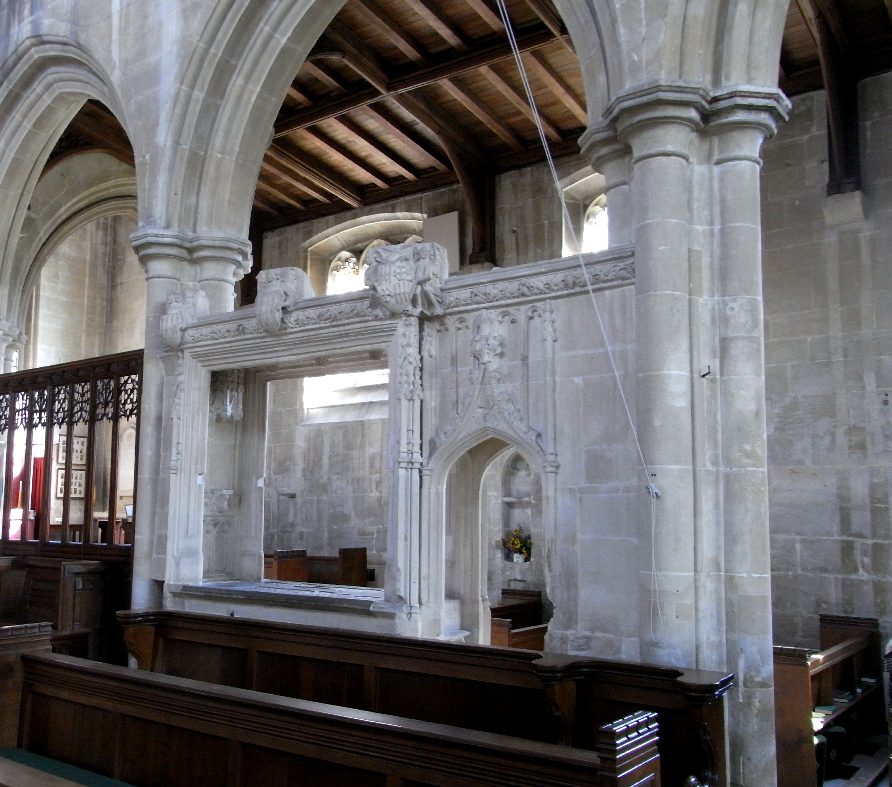 Edington Priory Church, Wiltshire, chantry chapel monument to Sir Ralph Cheyne (c.1337-1400) (alias Cheney), of Brooke, in the parish of Westbury in Wiltshire, thrice a Member of Parliament for Wiltshire and Deputy Justiciar of Ireland in 1373 and Lord Chancellor of Ireland 1383-4. He was Deputy Warden of the Cinque Ports